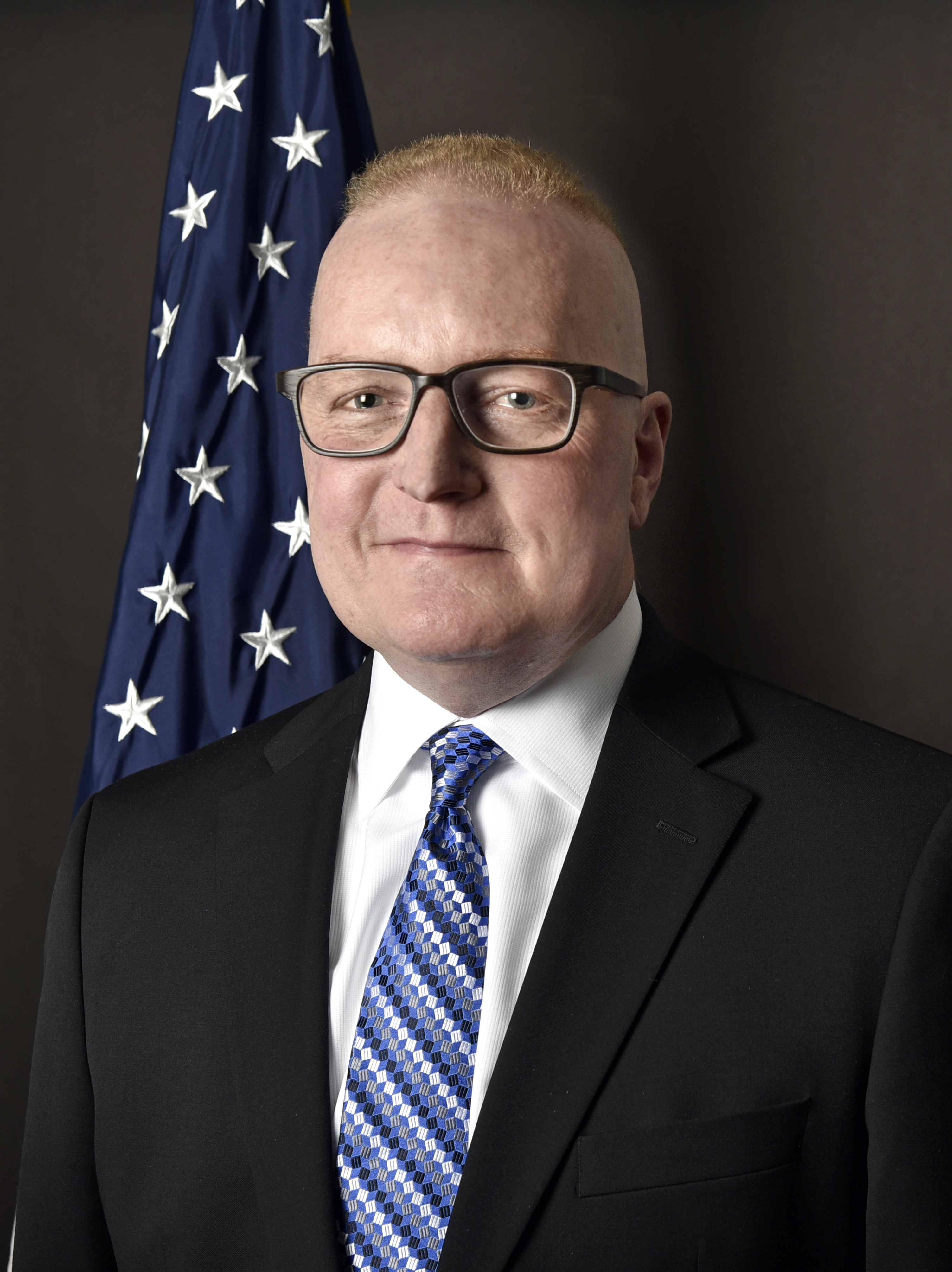 Kevin J. McIntyre official photo